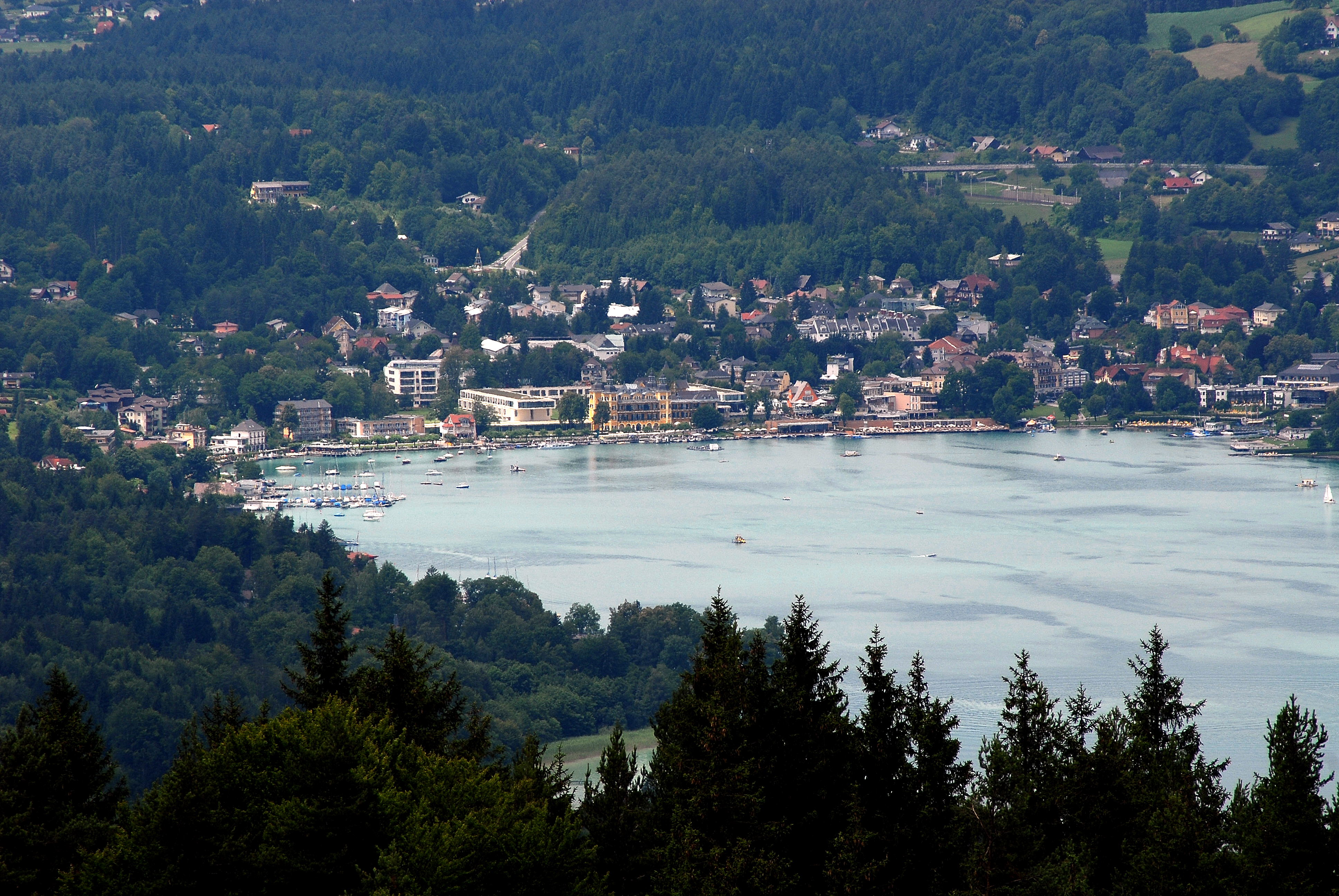 View at the bay of Velden from the Pyramid Ballon (Pyramidenkogel), market town Velden am Wörther See, district Villach Land, Carinthia / Austria / EU